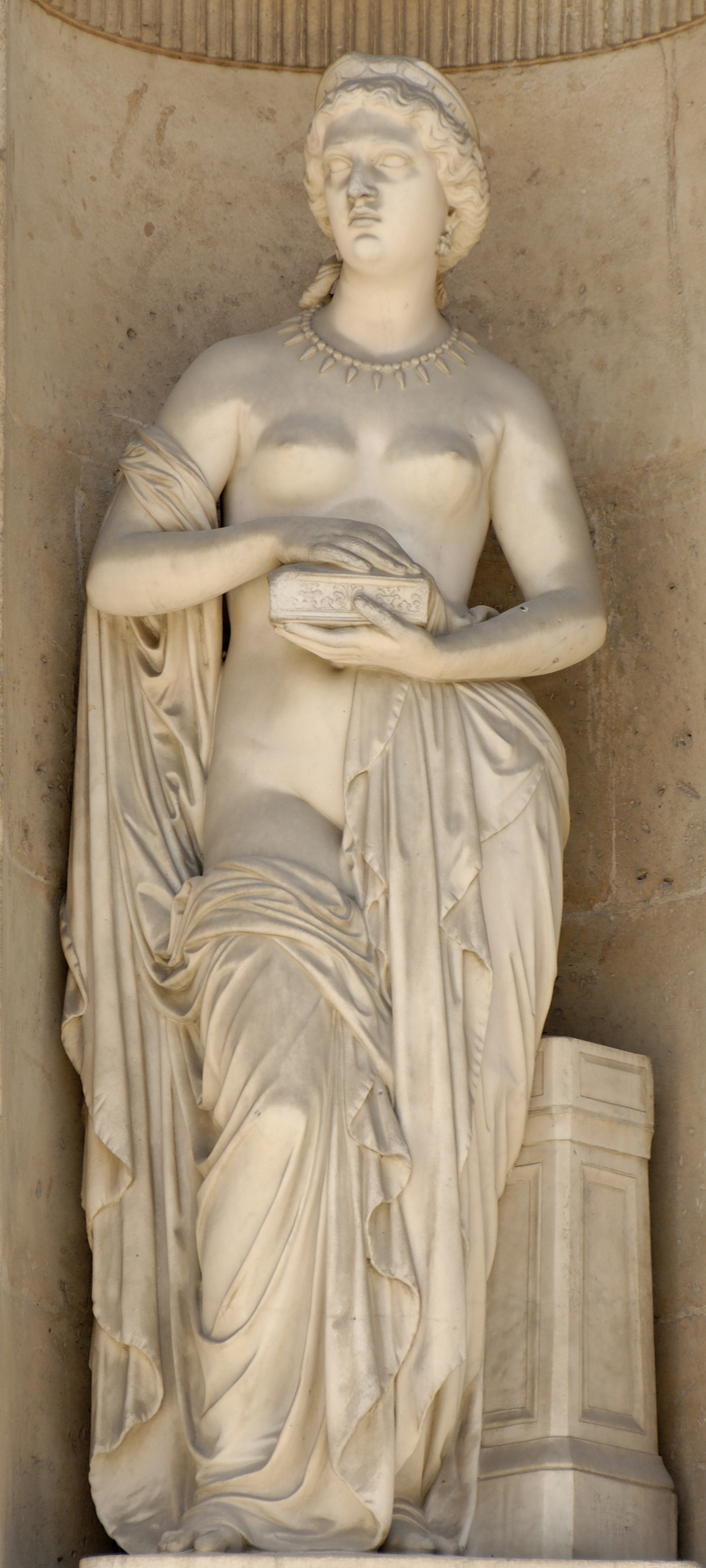 Pandora (1861), by Pierre Loison (1816-1886). East façade of the Cour Carrée in the Louvre palace, Paris.